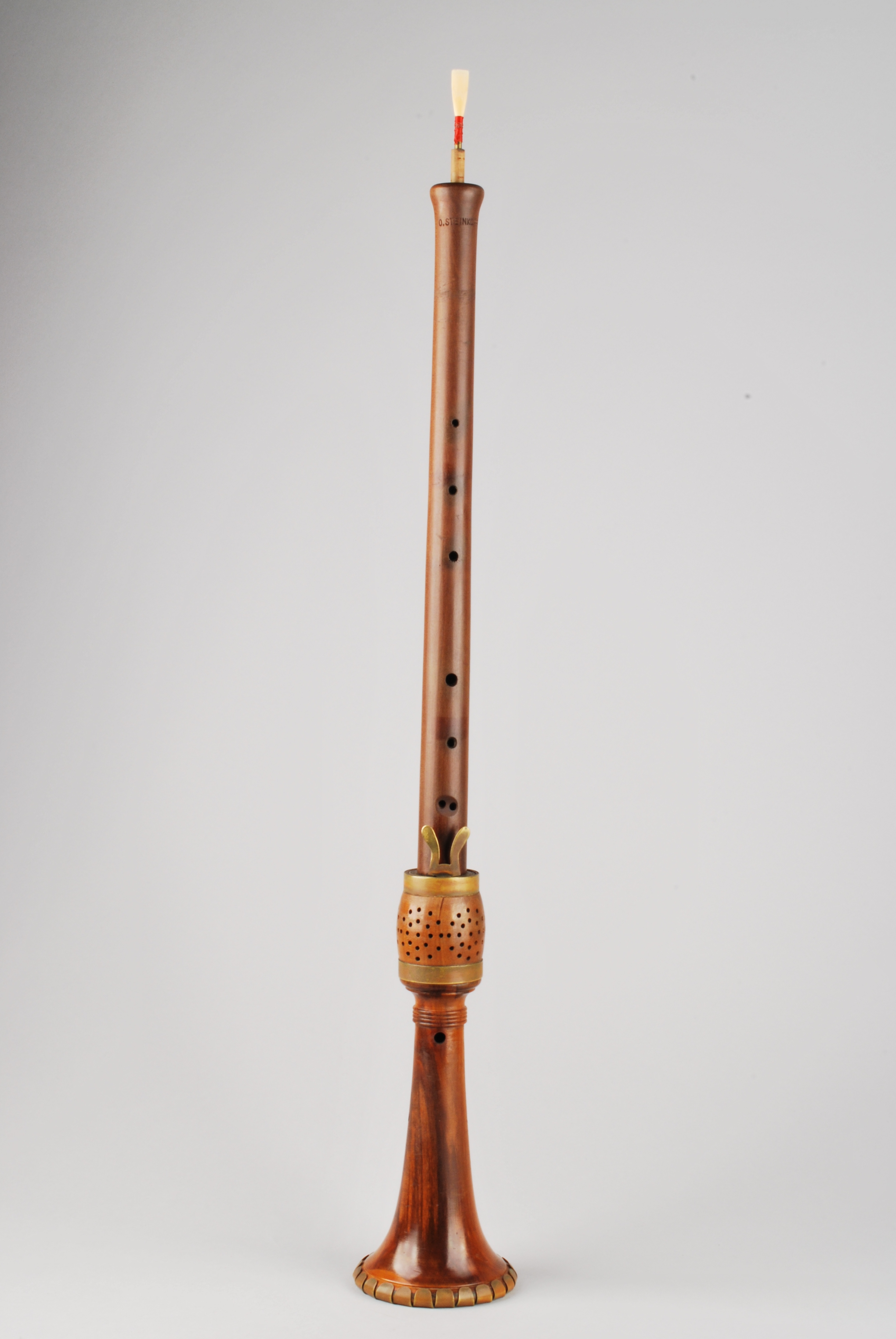 Shawm made by Otto Steinkopf, s. XX, MDMB 1304